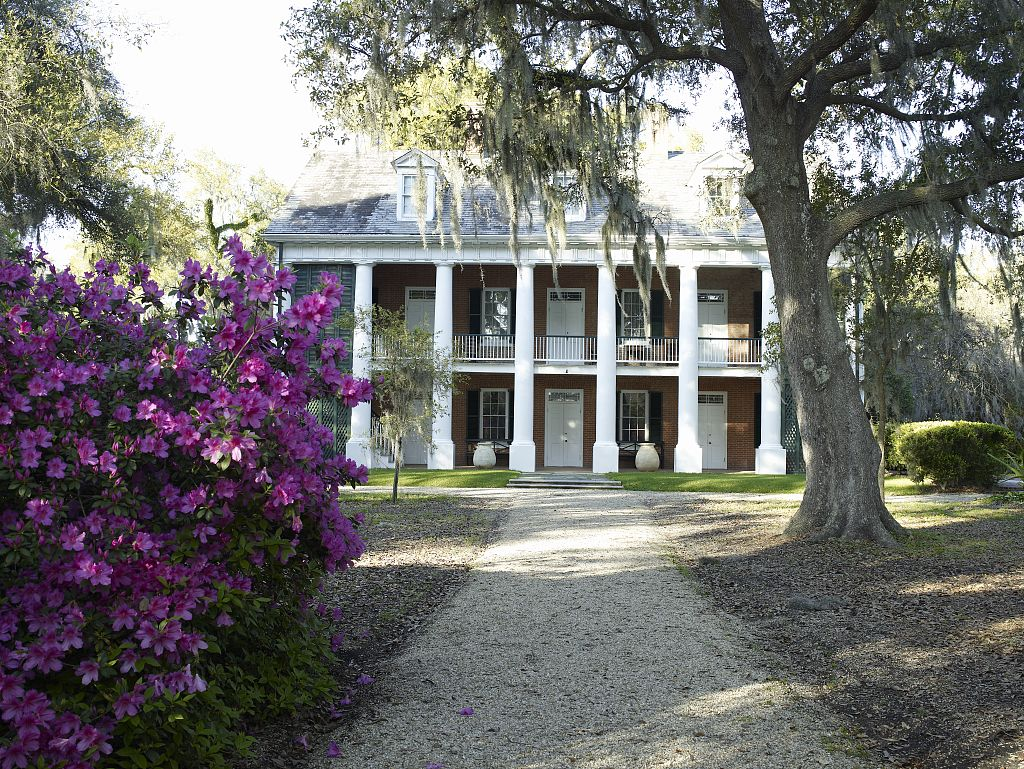 Shadows-on-the-Teche, New Iberia, Lousiana